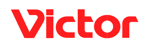 Wordmark of Victor Company of Japan, Limited. Trademarked by Victor Company of Japan, Limited.